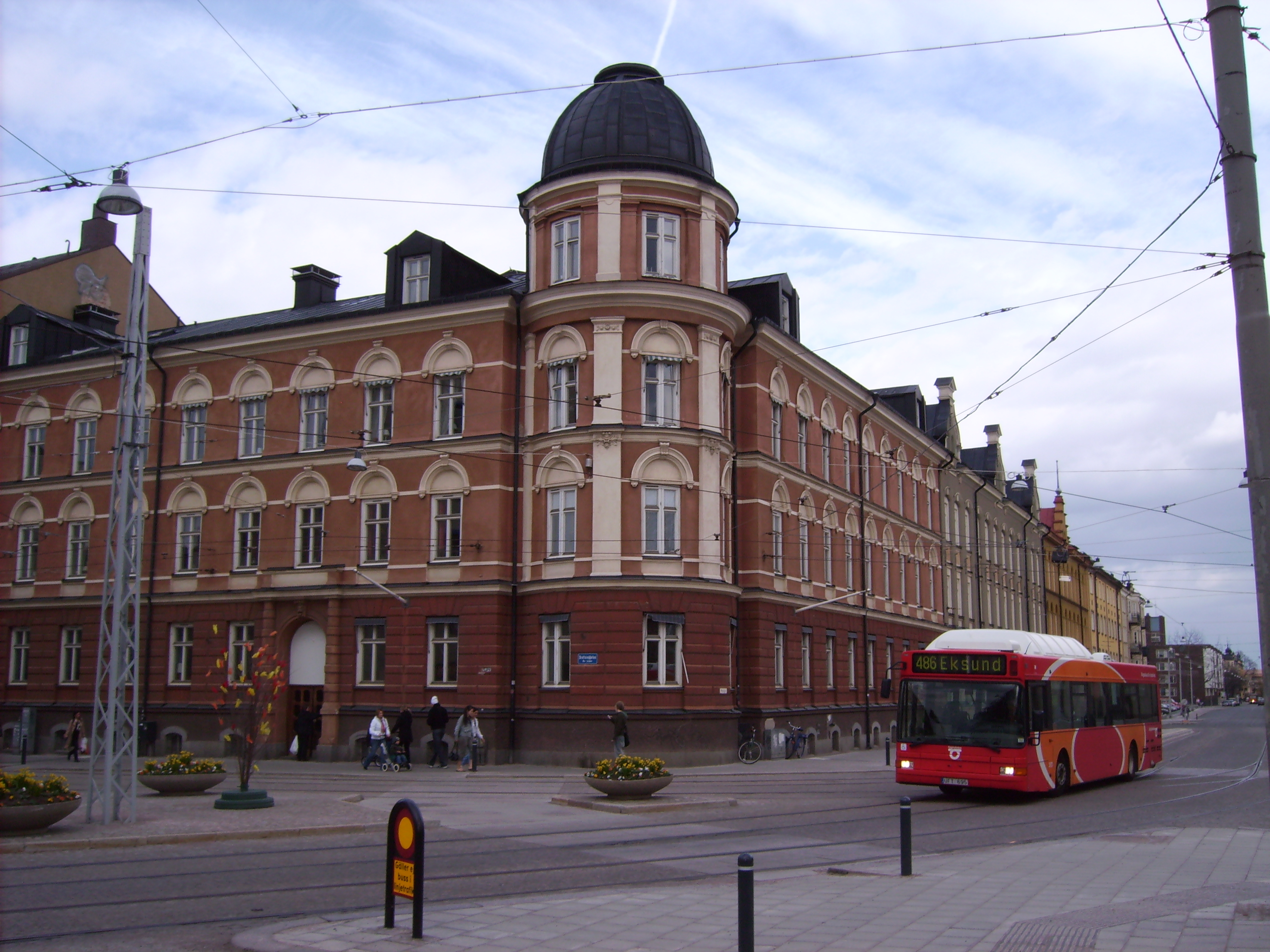 Volvo B10L CNG bus in Norrköping, Sweden. Photo by Harri Blomberg.